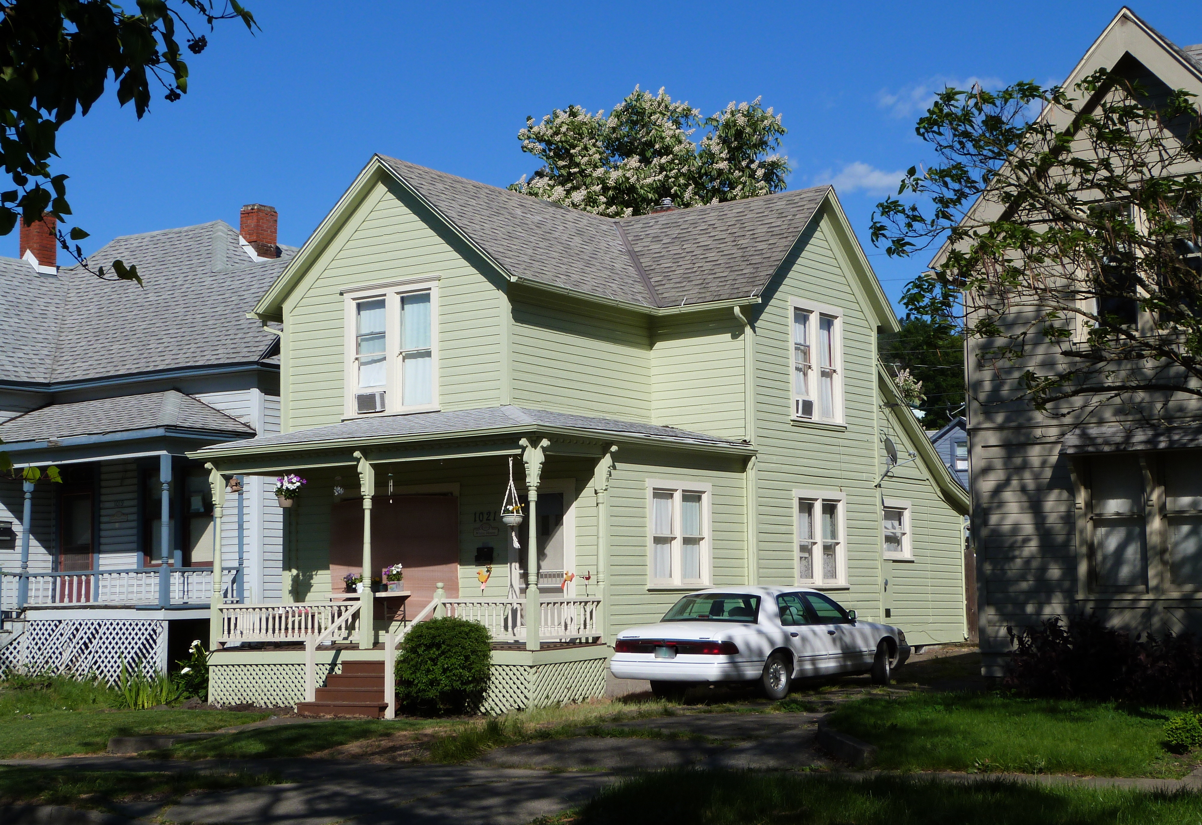 The historic White House (built 1895), located at 1021 Southeast Pine Street in Roseburg, Oregon, United States, is listed as a contributing resource in the Mill–Pine Neighborhood Historic District. The historic district is listed on the US National Register of Historic Places.